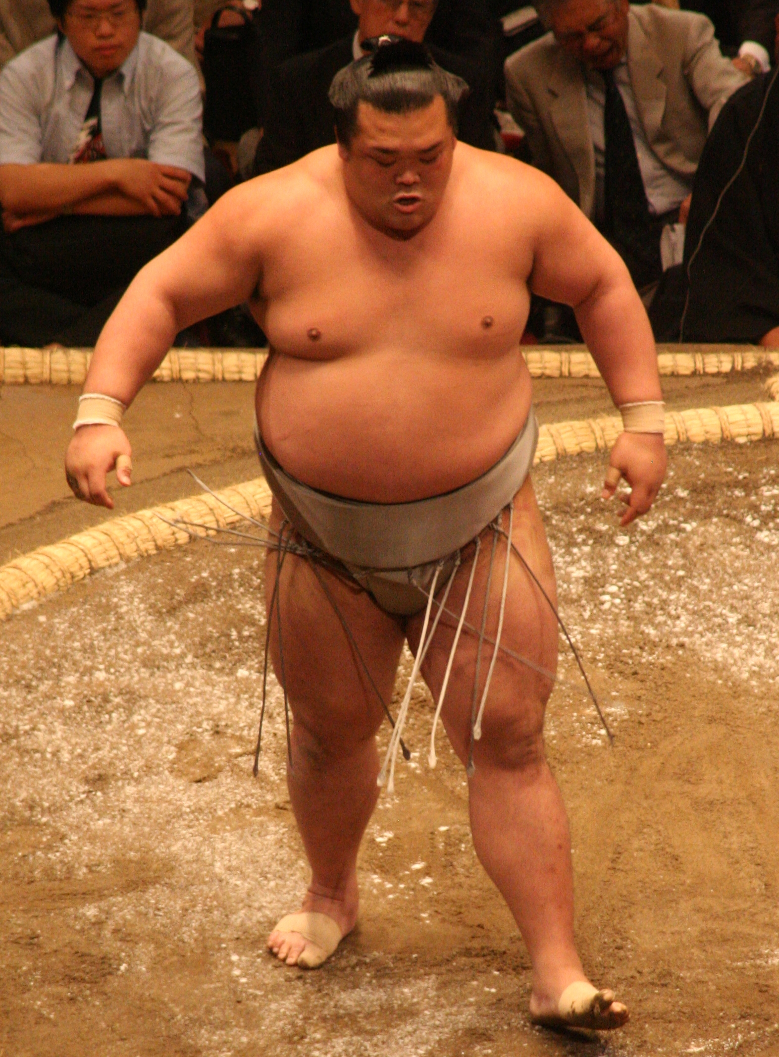 First day of 2009 May Sumo Tournament in Tokyo, Japan - Toyohibiki